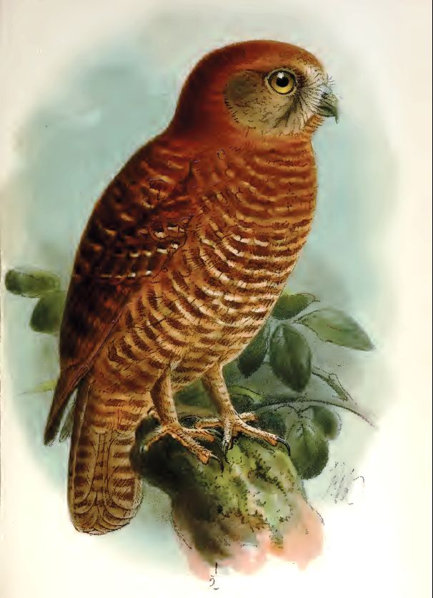 A Christmas Island Hawk Owl on a Plate from the work A monograph of Christmas Island (Indian Ocean) by Charles William Andrews (1866-1924). Illustration by John Gerrard Keulemans (1842-1912)